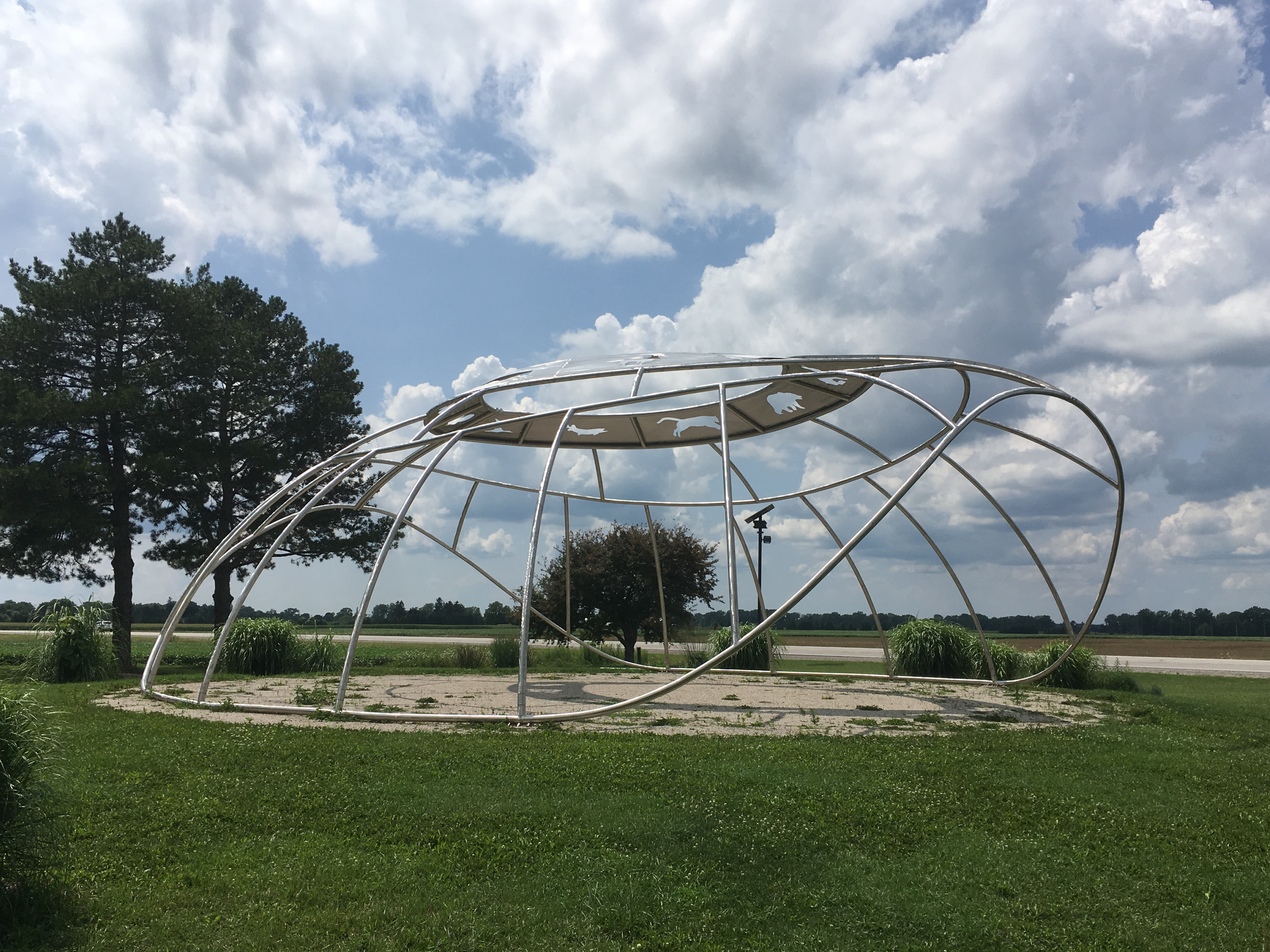 Tecumseh memorial in the shape of a turtle shell at the Battle of the Thames/Tecumseh monument